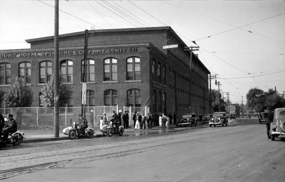 We see a group of strikers in front of the "Mount Royal Spinning Co. Limited". We see two motorcycle police officers monitoring the scene as well as automobiles.